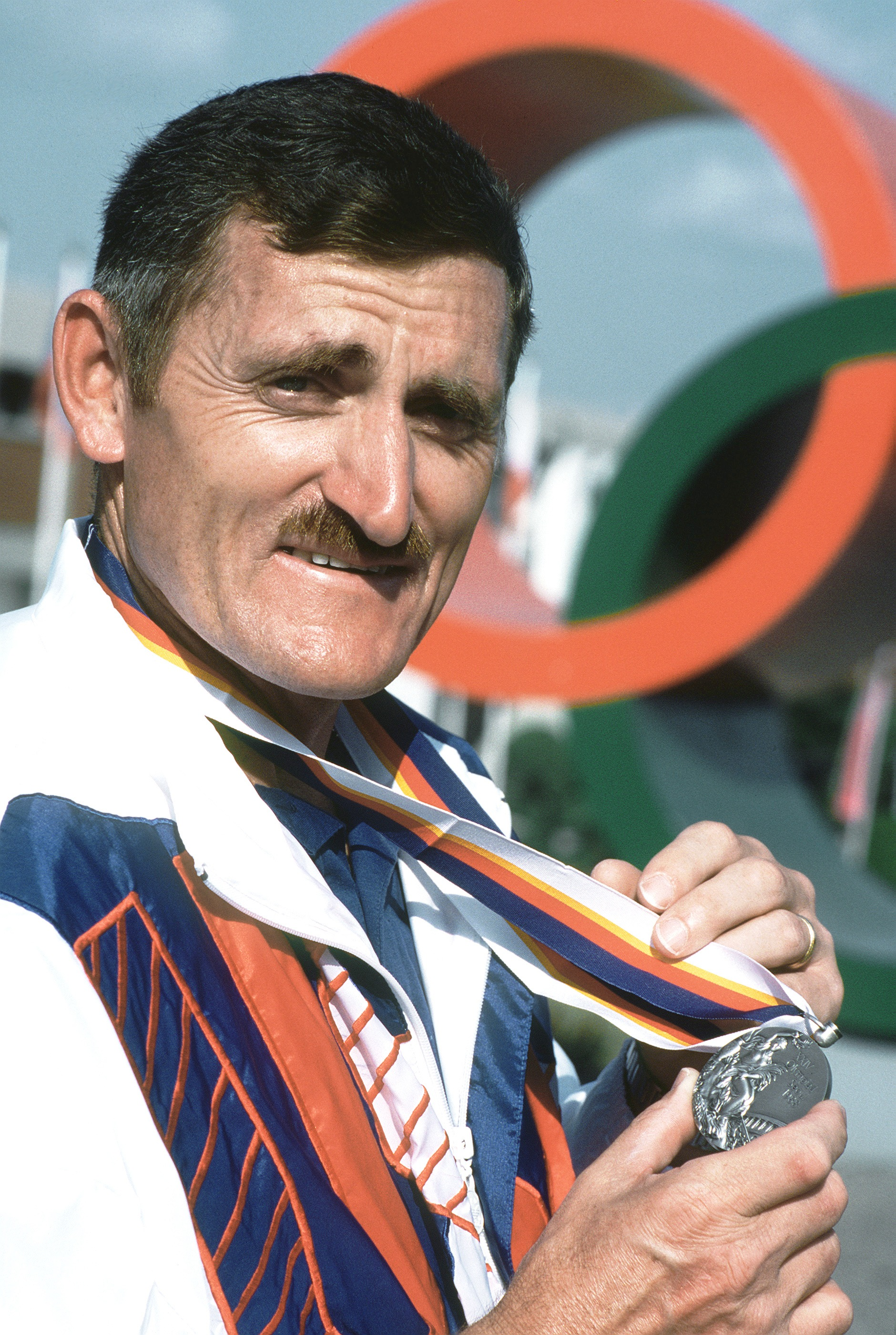 Erich Buljung shows off the silver medal he won in the 10-meter air pistol competition at the Summer Games of the 24th Olympiad. Buljung scored 687.9 out of a possible 700 points in the event.